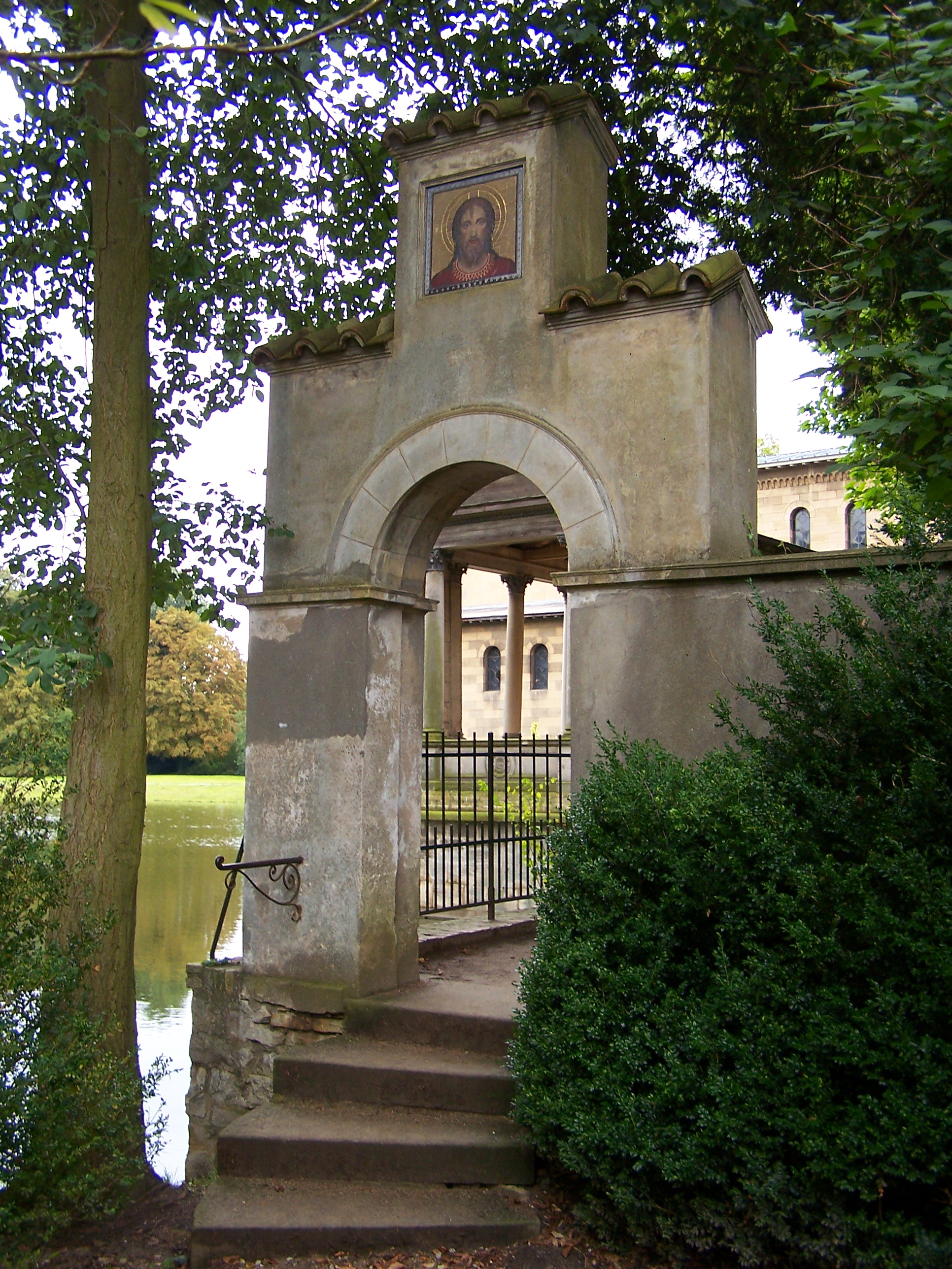 Entrance to church in Sanssouci park (Potsdam, Germany).